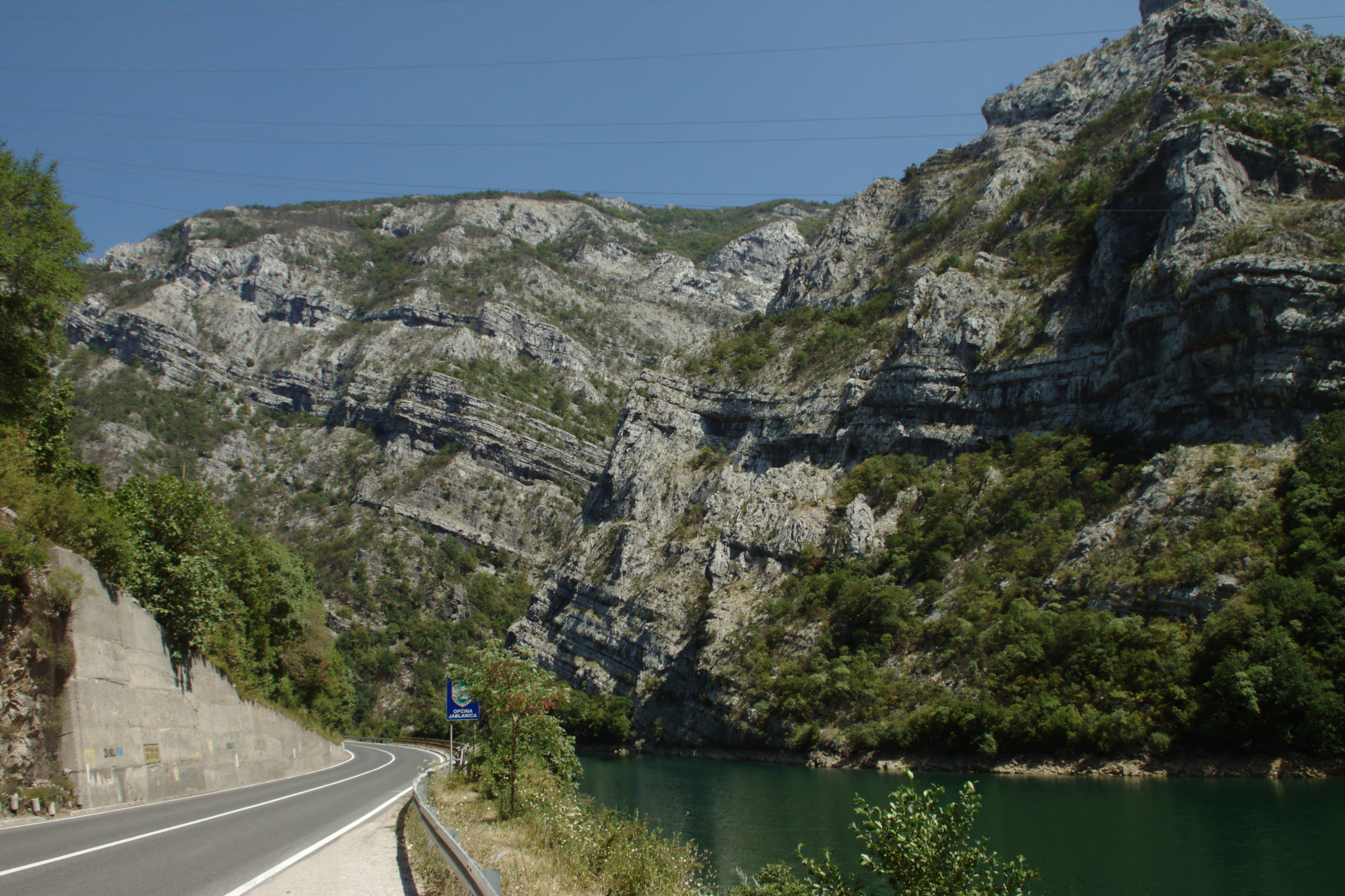 Neretva River passing through the town of Jablanica, BiH